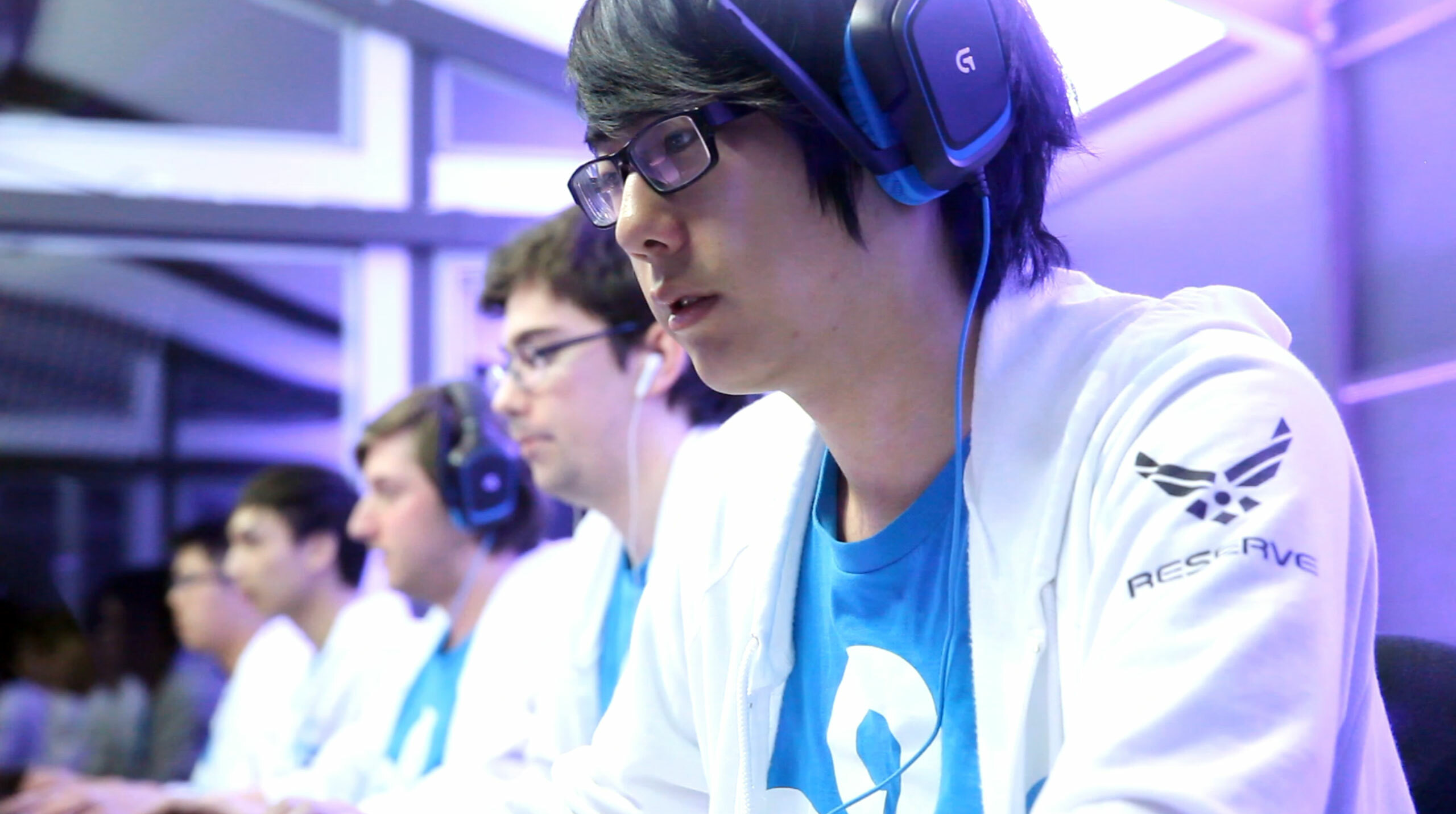 In the foreground: Kurtis „Aui_2000“ Ling (Cloud 9). TI4-Match Cloud 9 vs. Vici Gaming.